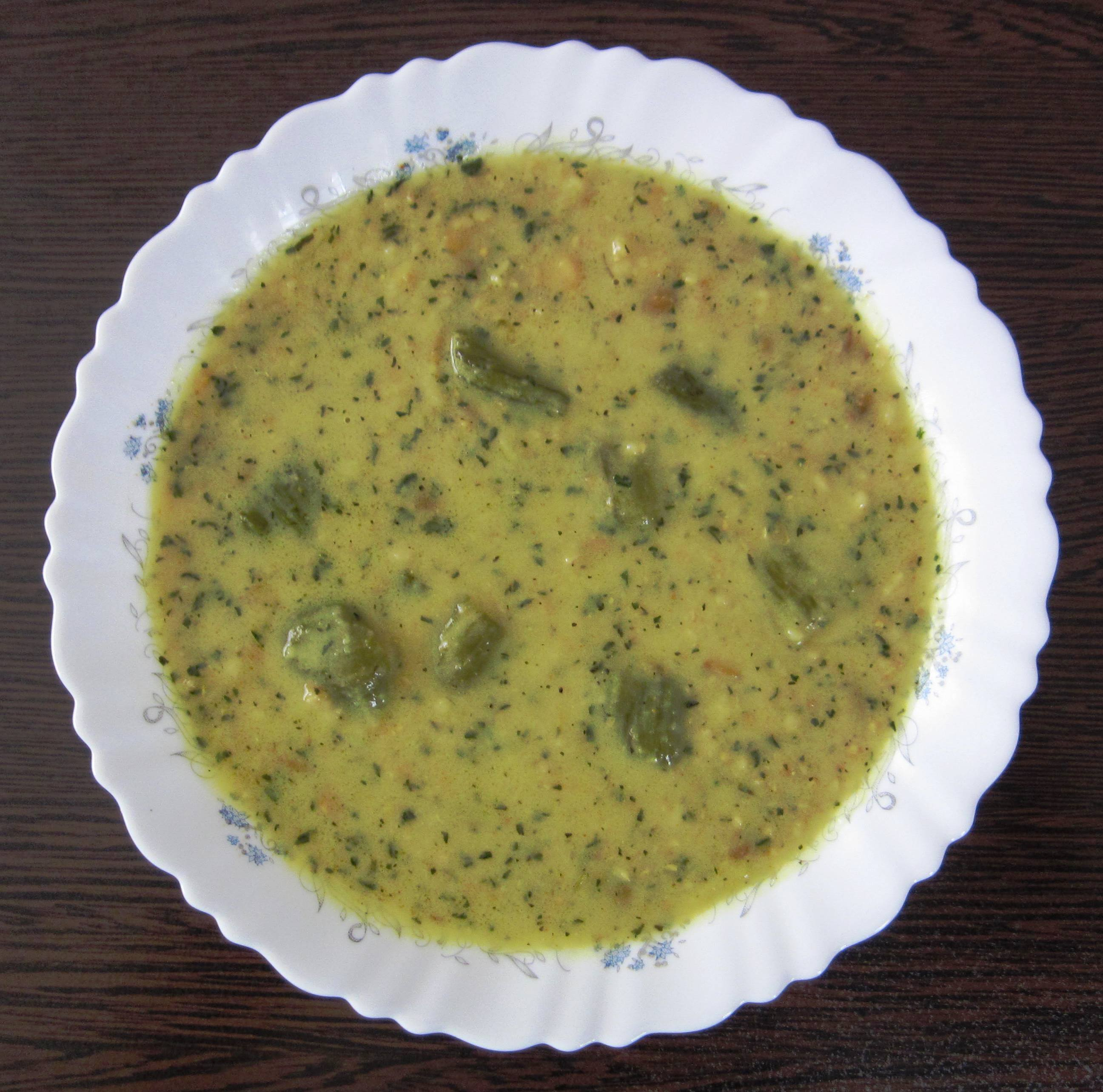 Āsh e Khiar chanbar is a kind of Āsh made of khiar chanbar (Armenian cucumber) commonly cooked in Markazi Province and Hamadan Province.